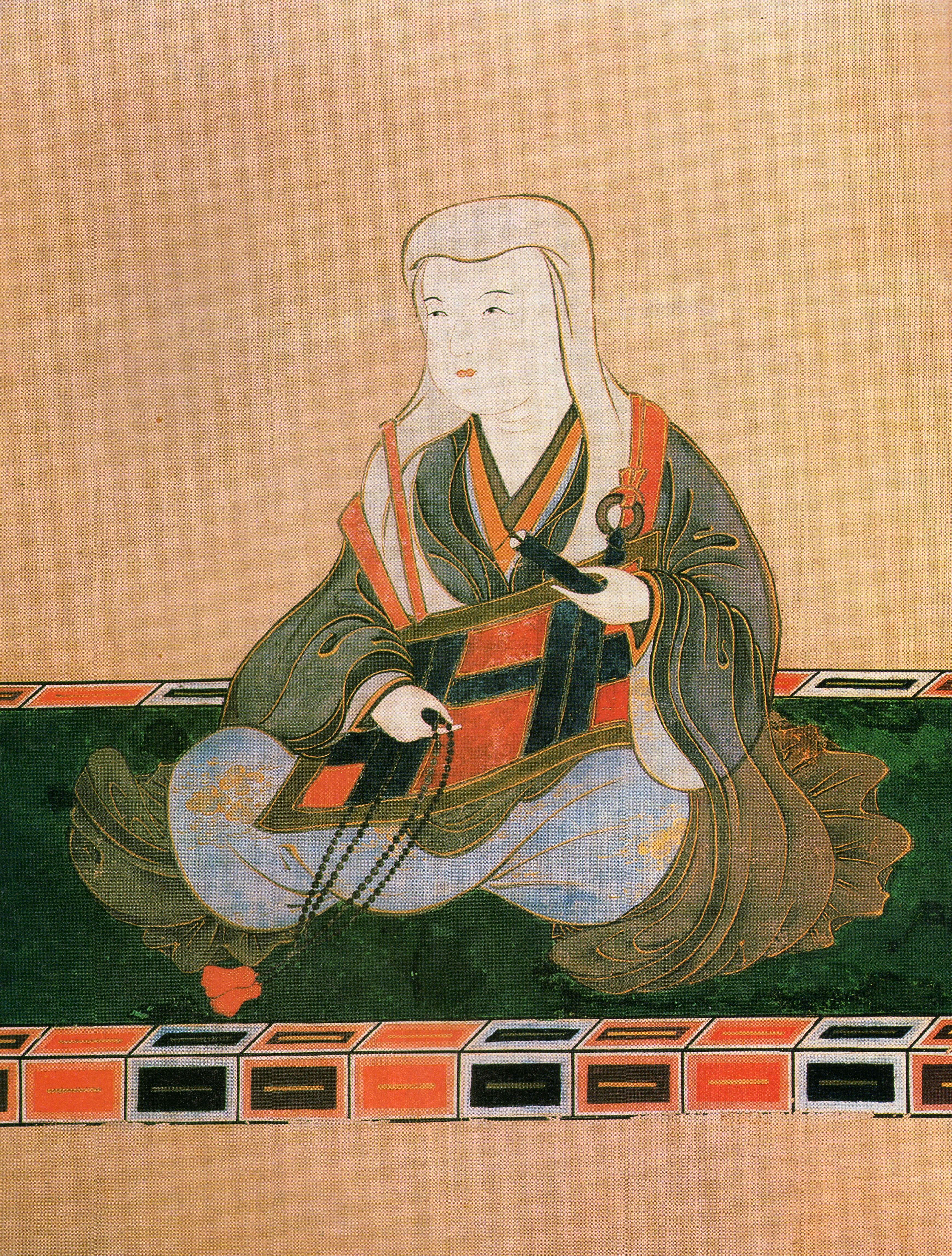 Portrait of Irohahime